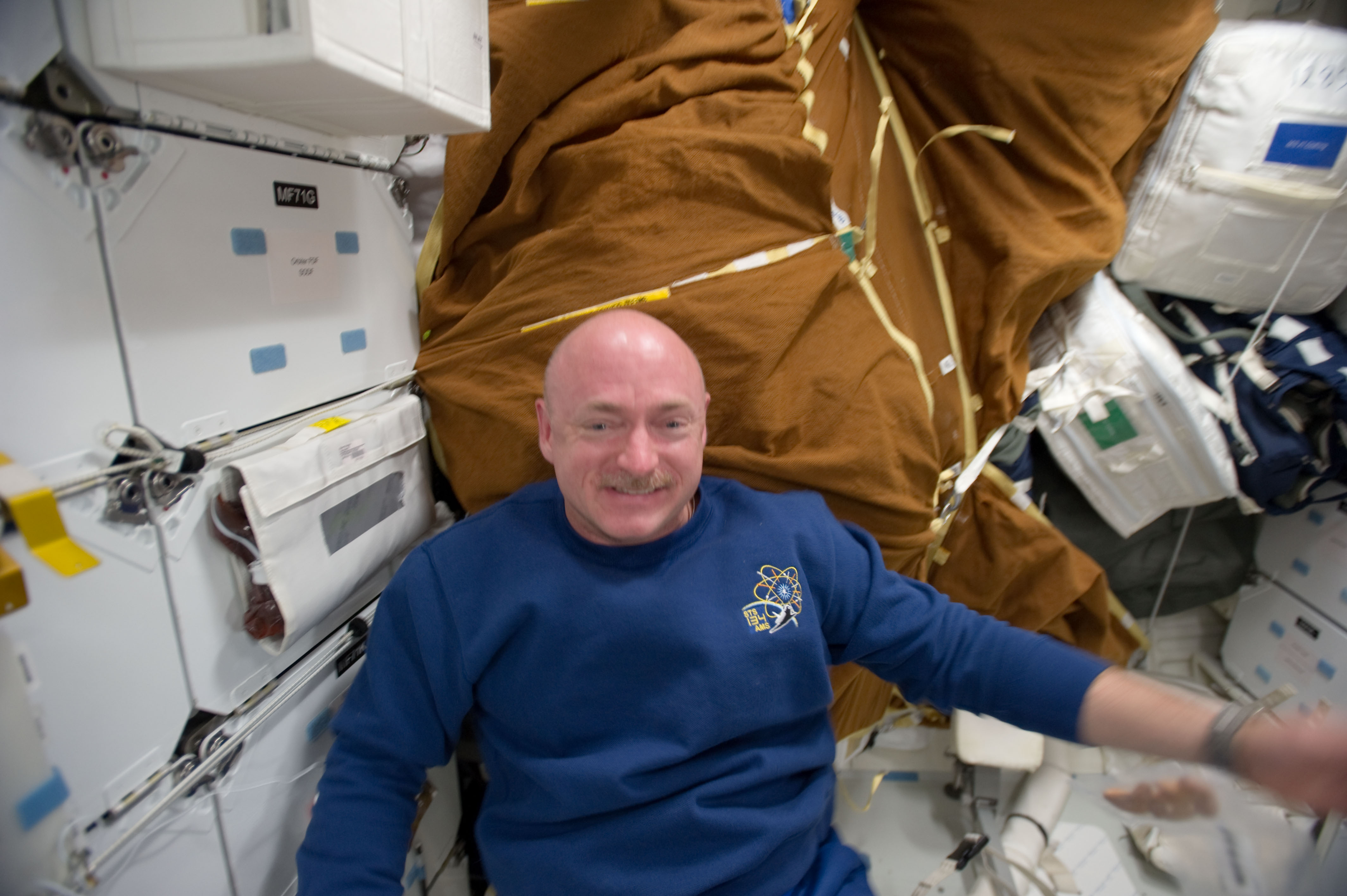 NASA astronaut Mark Kelly, STS-134 commander, is pictured on the middeck of space shuttle Endeavour while docked with the International Space Station. Photo credit: NASA